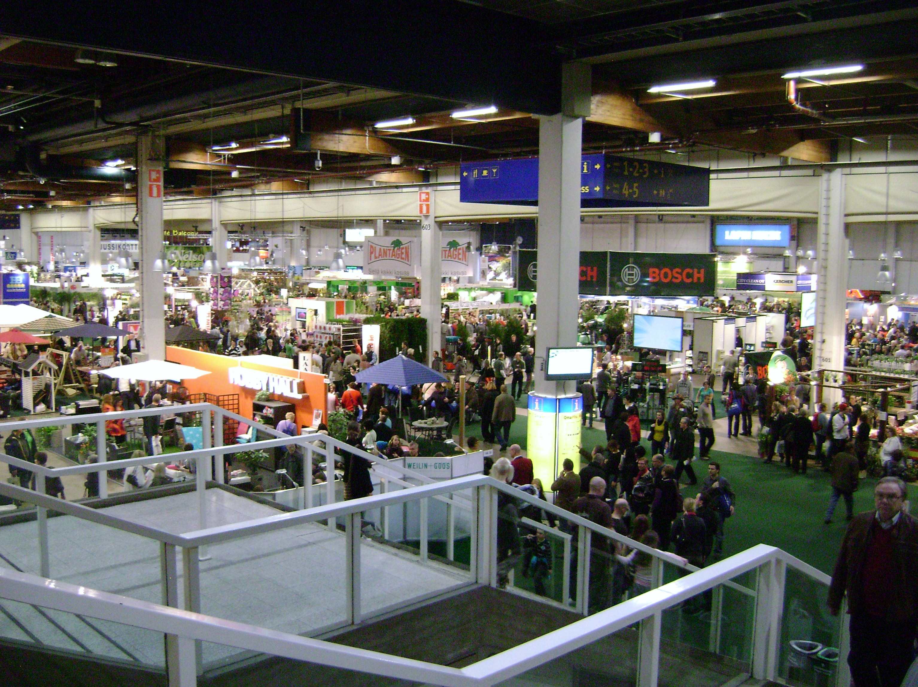 Helsinki Fair Centre, Hall 6.